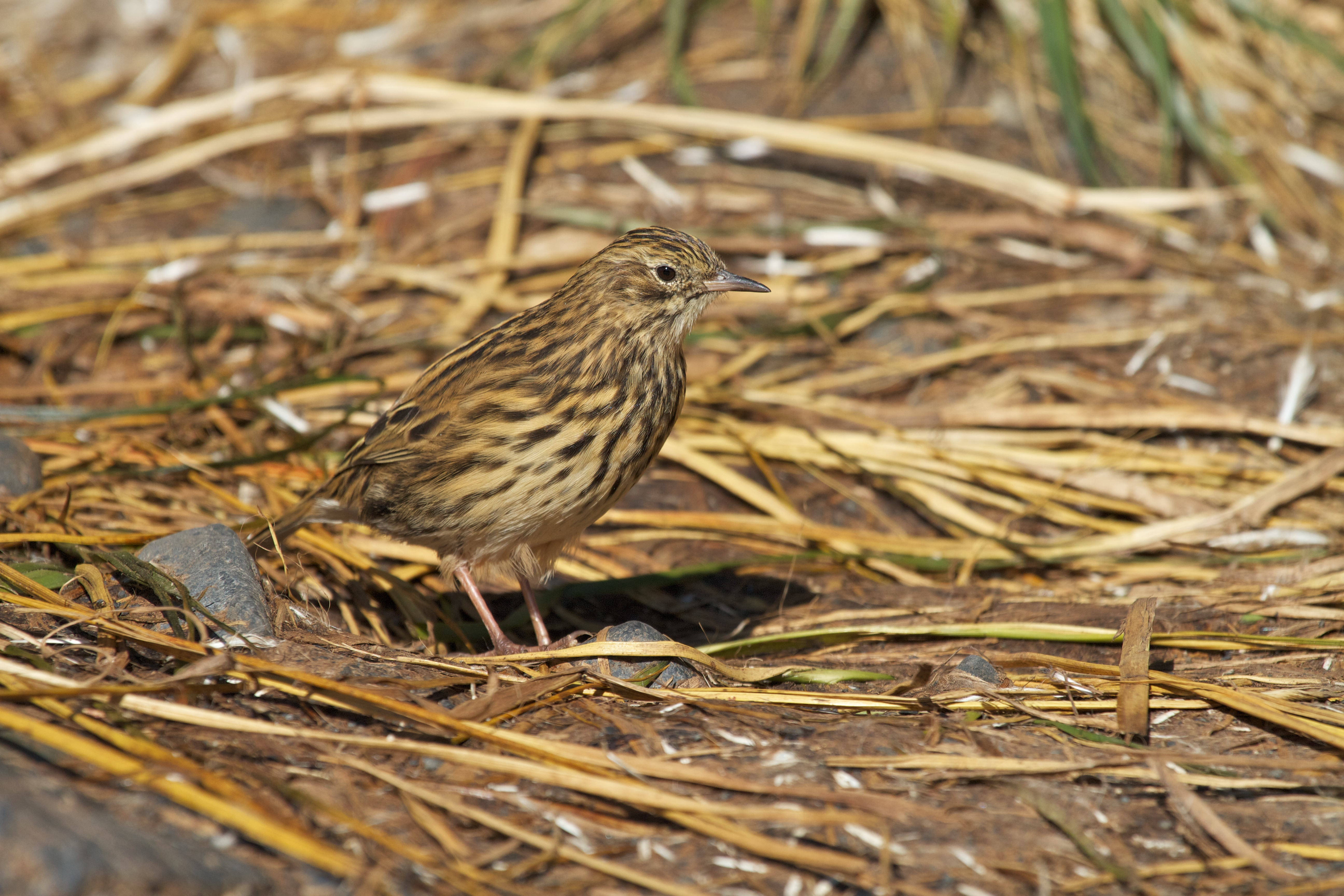 A South Georgia Pipit on South Georgia, British overseas territory.